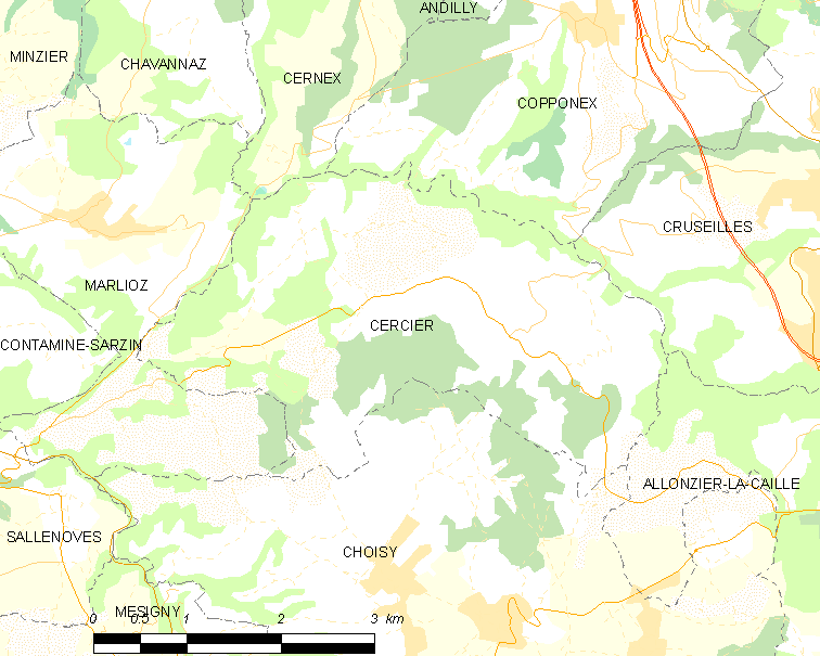 Map of French municipality Cercier